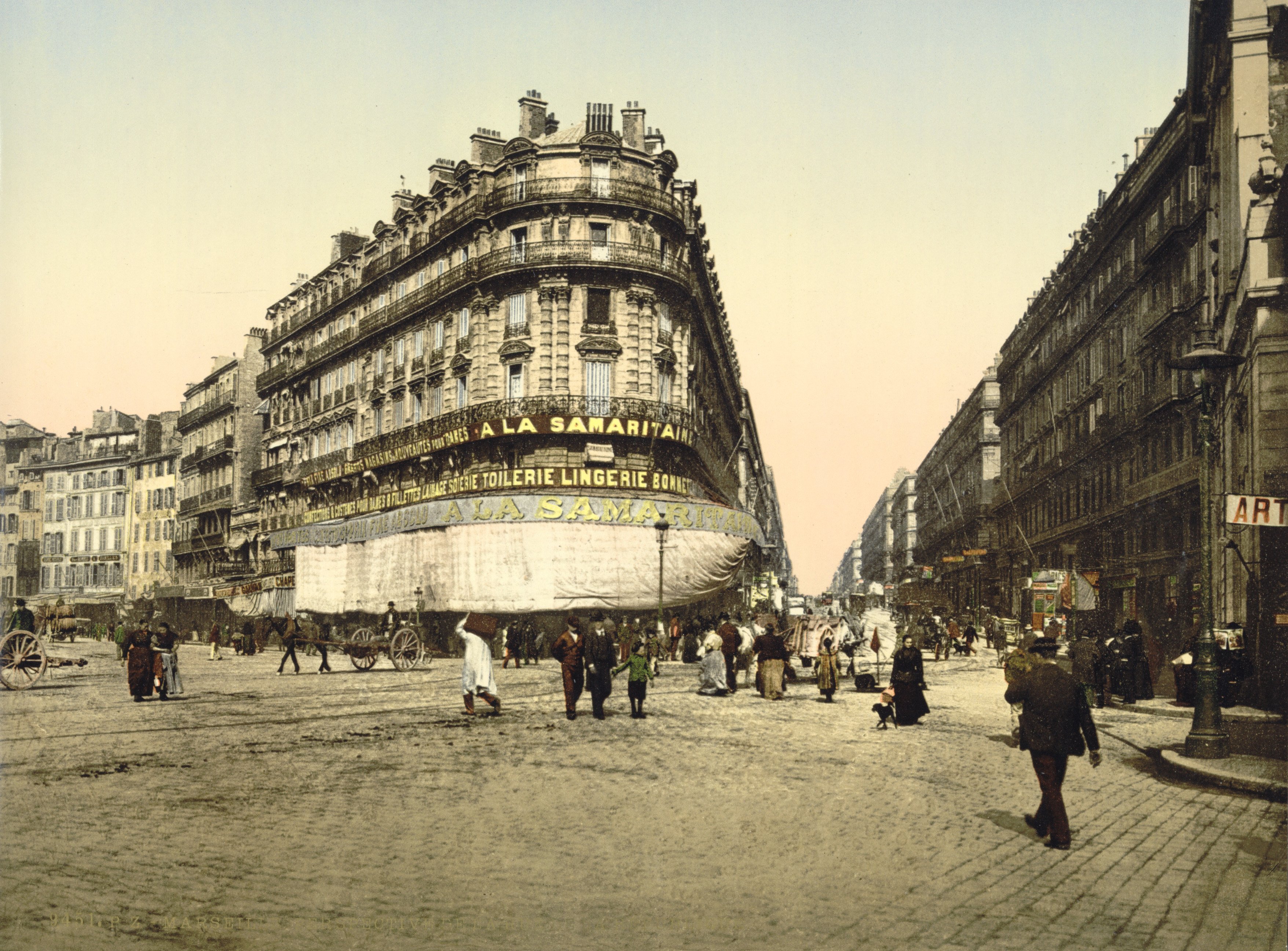 9451 P.Z. Marseille. Perspective de la Rue de la République. Photochrom print by Photoglob Zürich, between 1890 and 1900. From the Photochrom Prints Collection at the Library of Congress More photochroms from France | More photochrom prints [PD] This picture is in the public domain